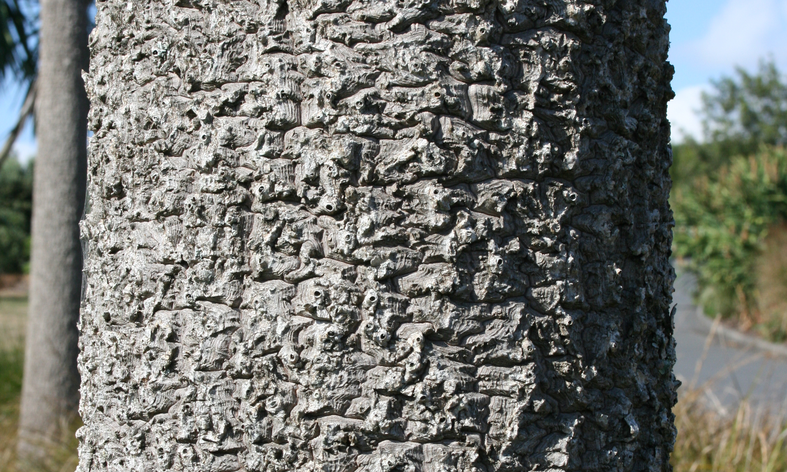 Trunk and bark of Cordyline australis, (Cabbage tree), growing in cultivation at Auckland Botanic Gardens, Manukau City, New Zealand